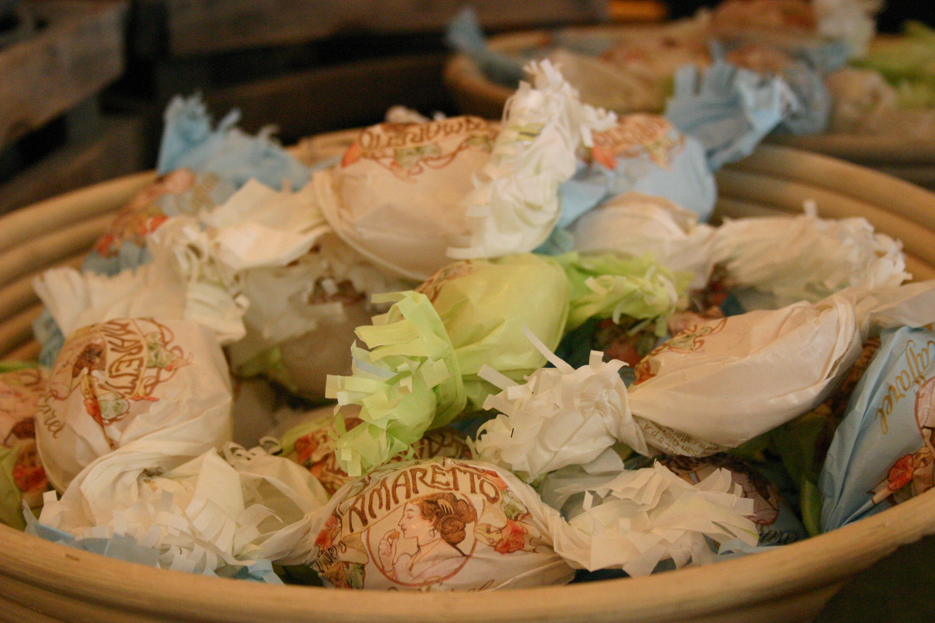 Individually wrapped Amaretti - Italy